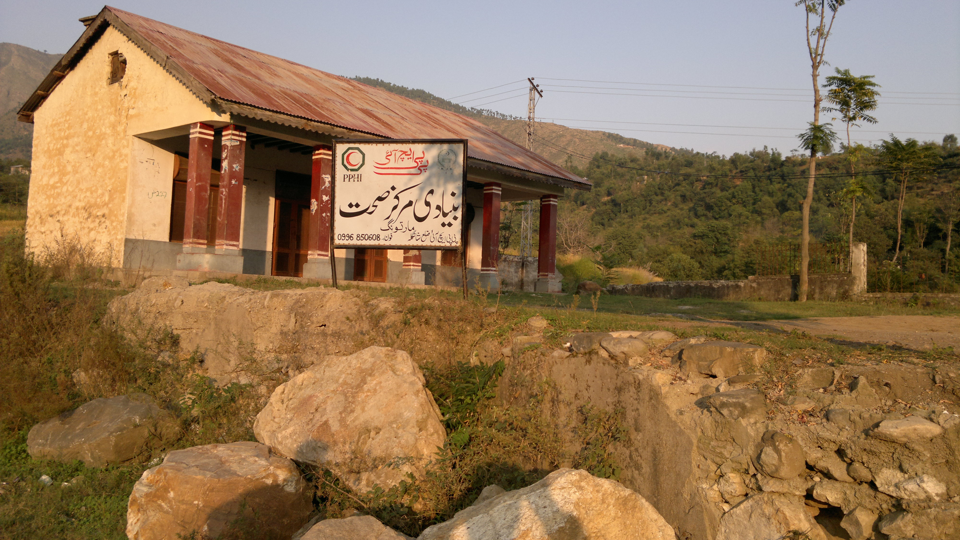 Basic Health Unit Martung; the building was constructed in 1968 by the former ruler of Swat State.